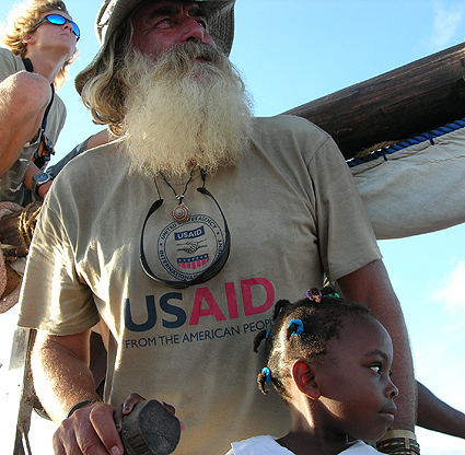 South African adventurer Kinglsey Holgate